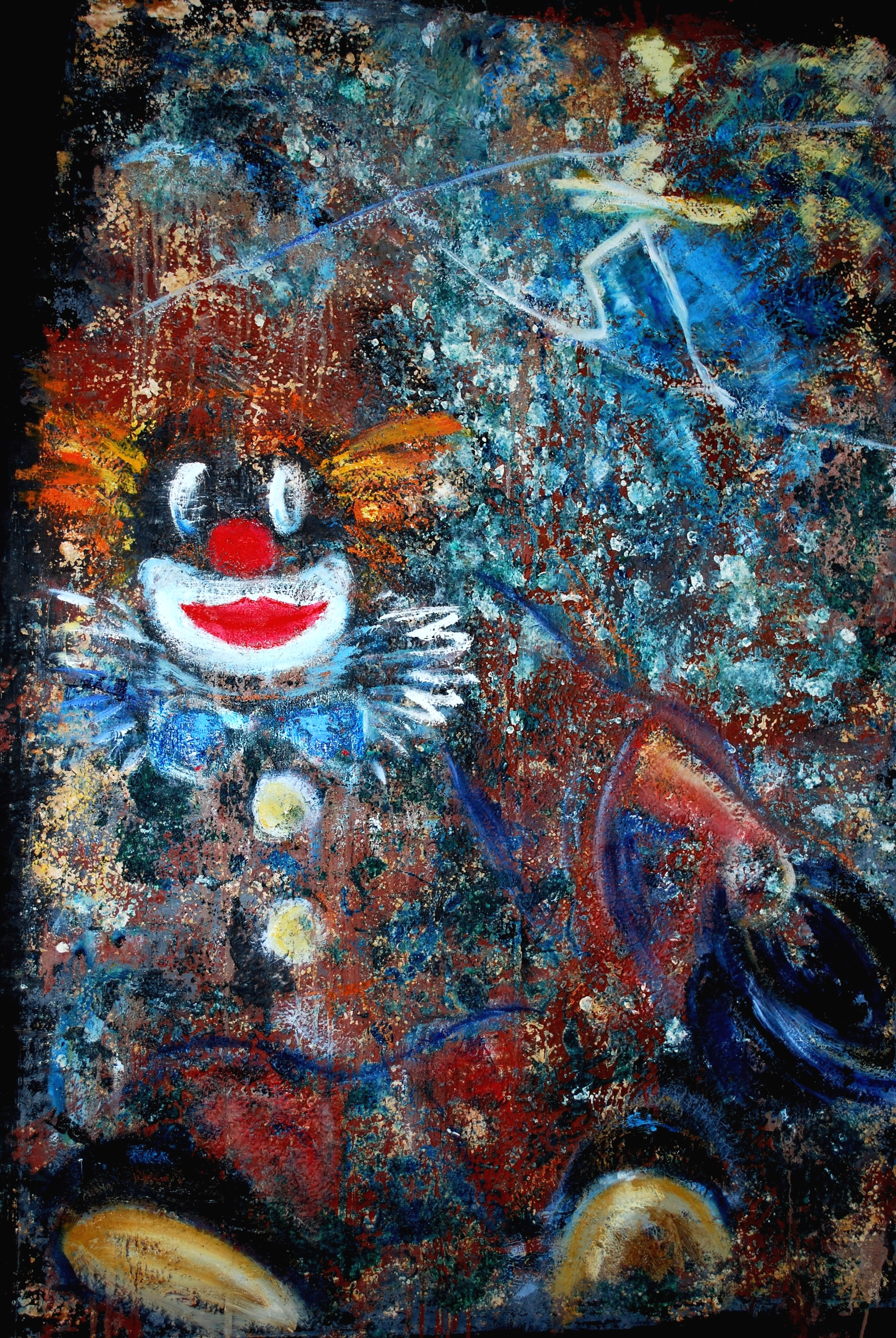 The Clown and the tightrope walker, Painter:Herbert Schondelmaier (my own painting)